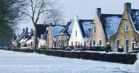 View of the village Schiermonnikoog